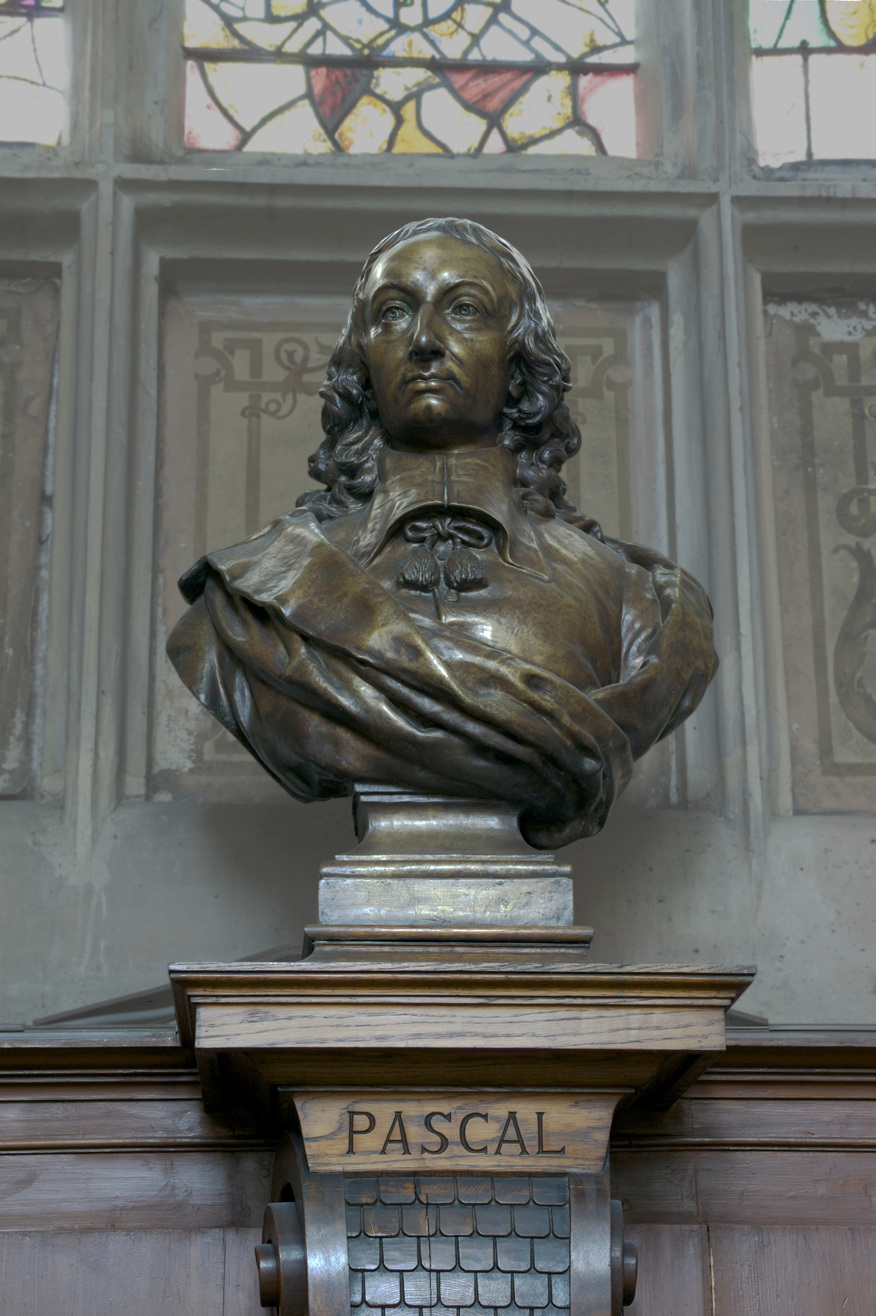 Bronze bust of Blaise Pascal, 19th century, in a lateral chapel of the Church Saint-Etienne-du-Mont in Paris, where his body is buried.